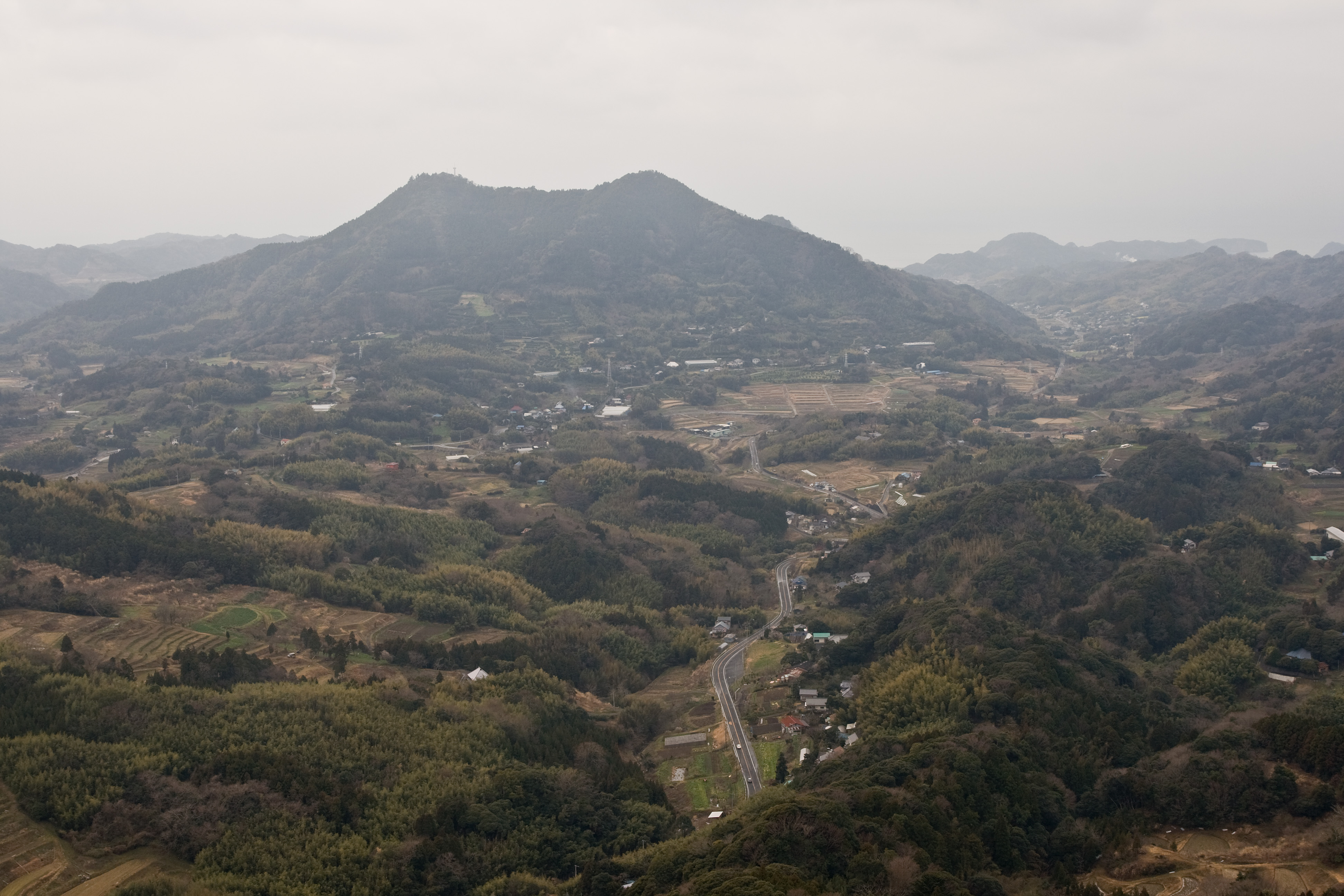 Mt. Tomi (富山 Tomi-san) as seen from Mt. Iyogatake, Chiba pref., Japan.